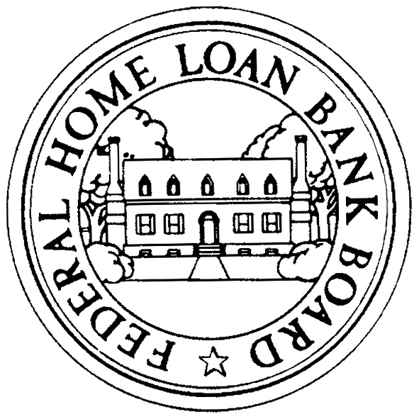 Seal of the Federal Home Loan Bank Board.